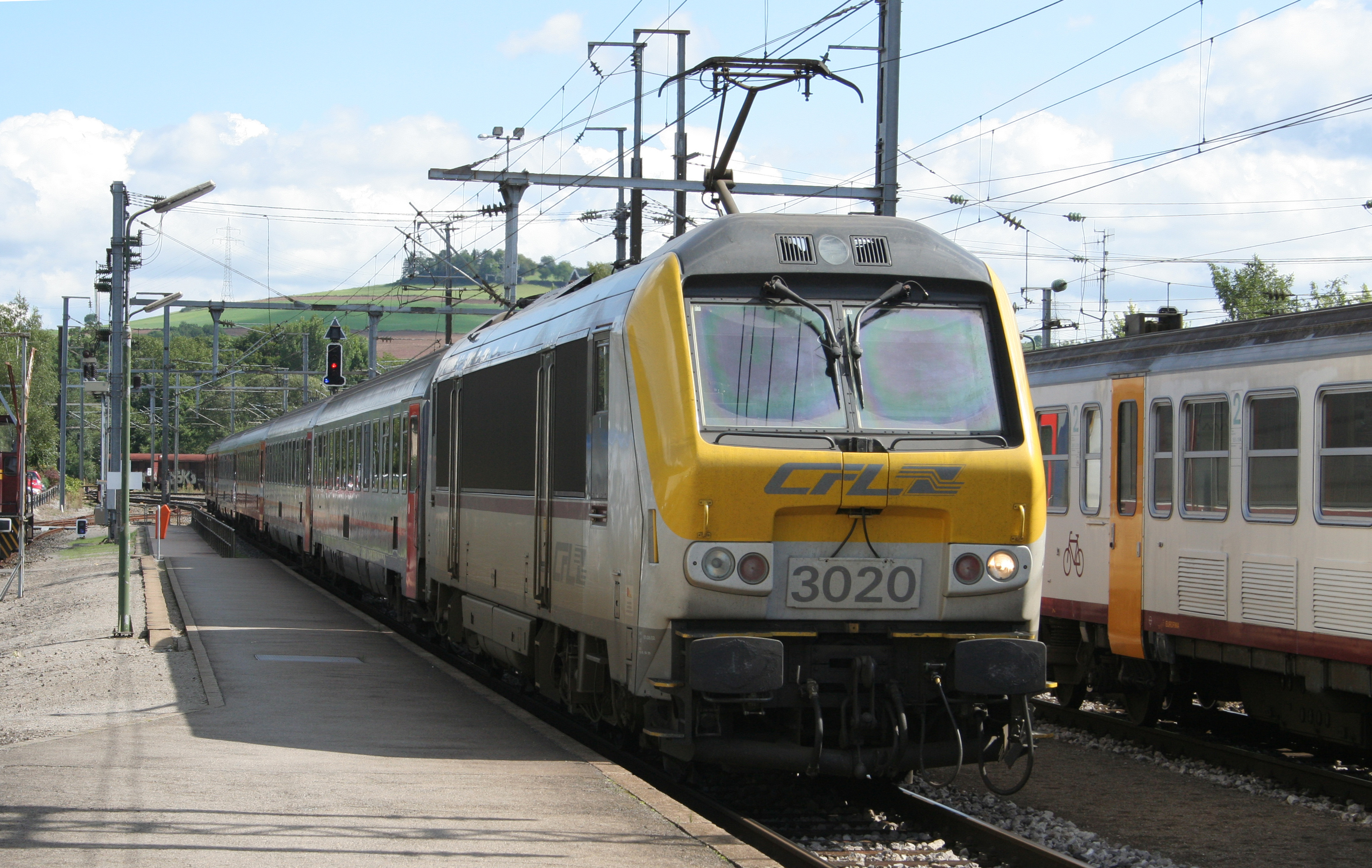 HLE3000 of CFL in Ettelbruck